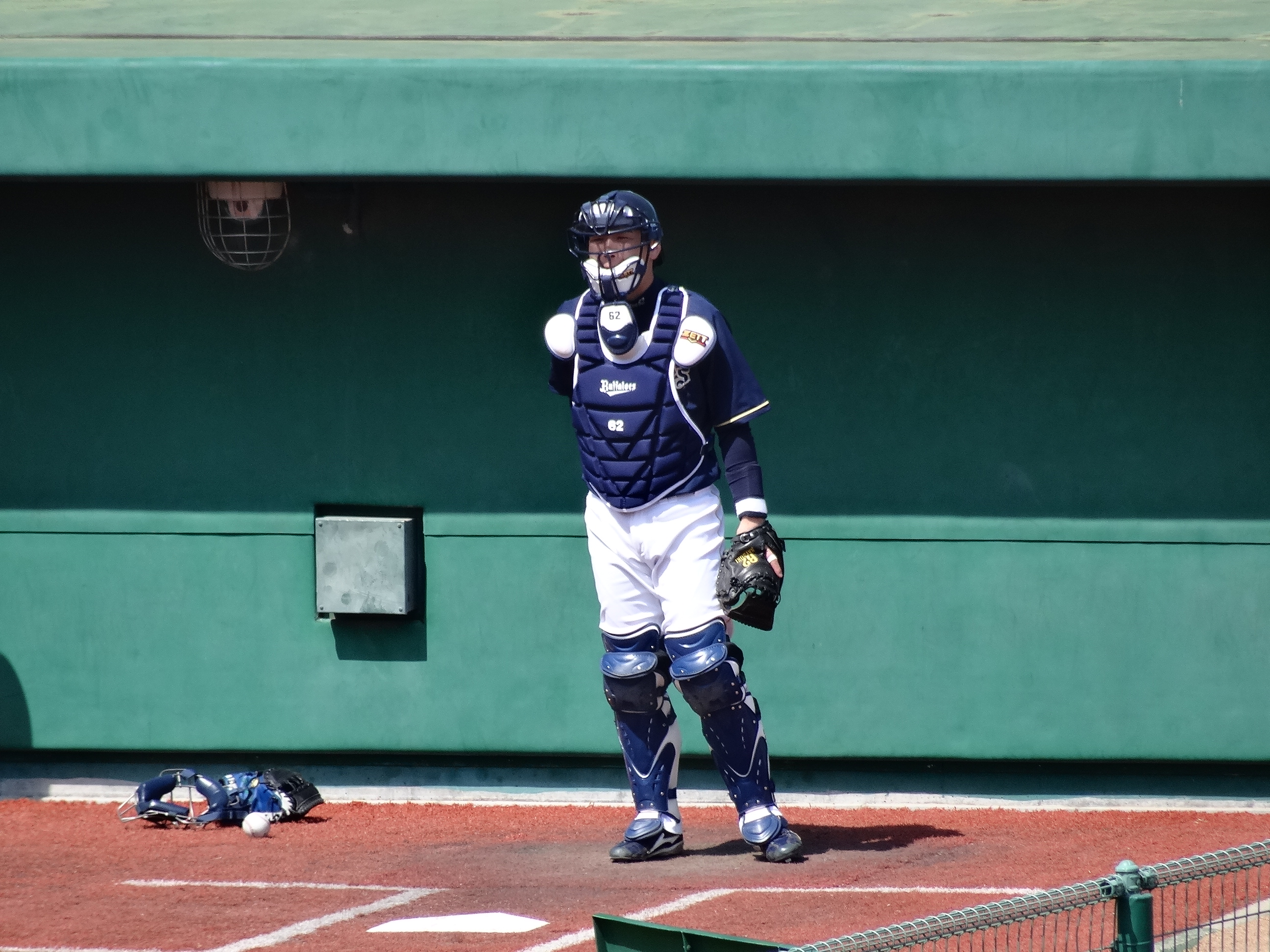 Katsuki Yamazaki, catcher of the Orix Buffaloes, at Kobe Sports Park Baseball Stadium.